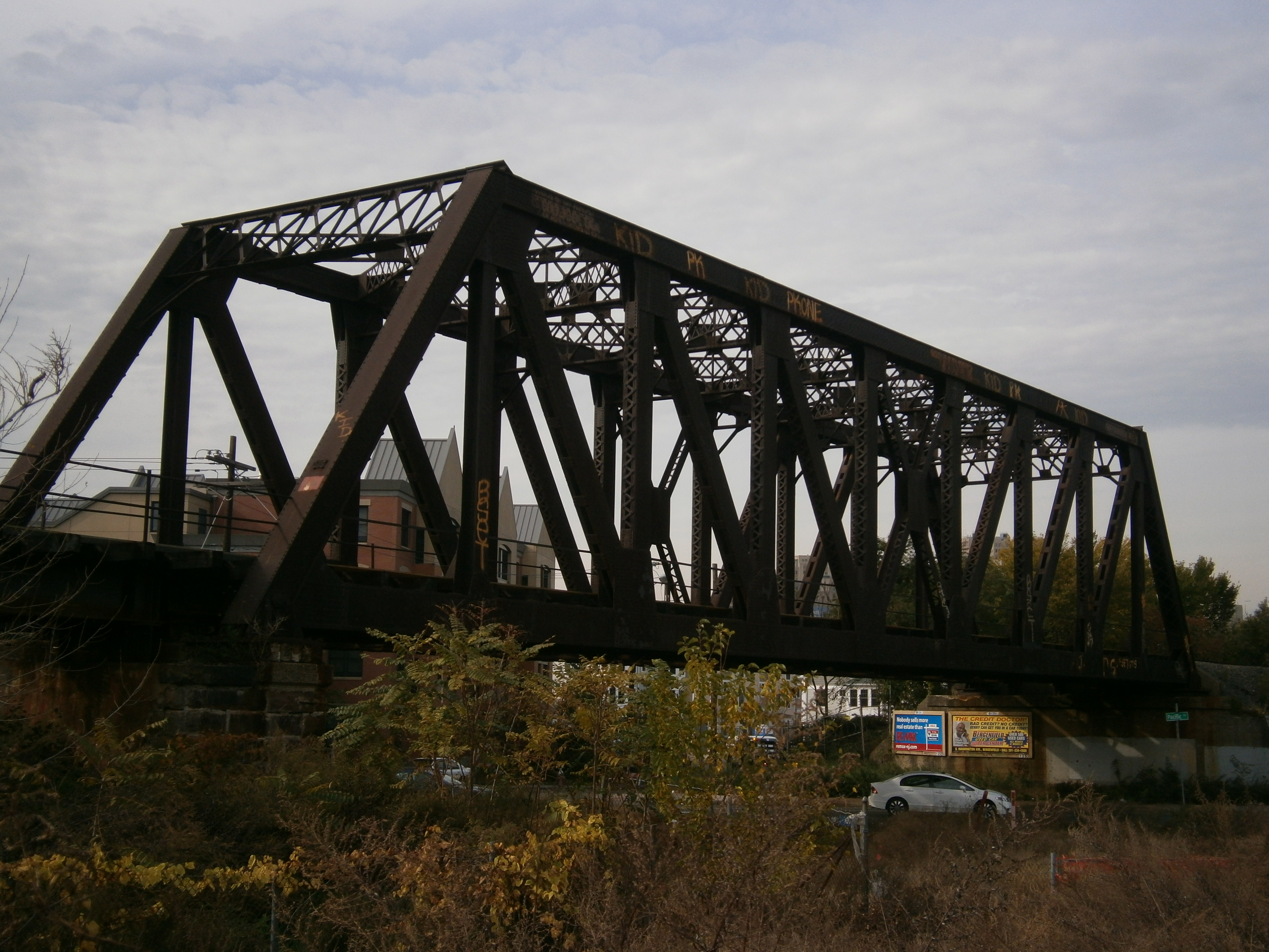 National Docks Secondary bridge near Pacific Ave & Grand St in Lower Jersey City